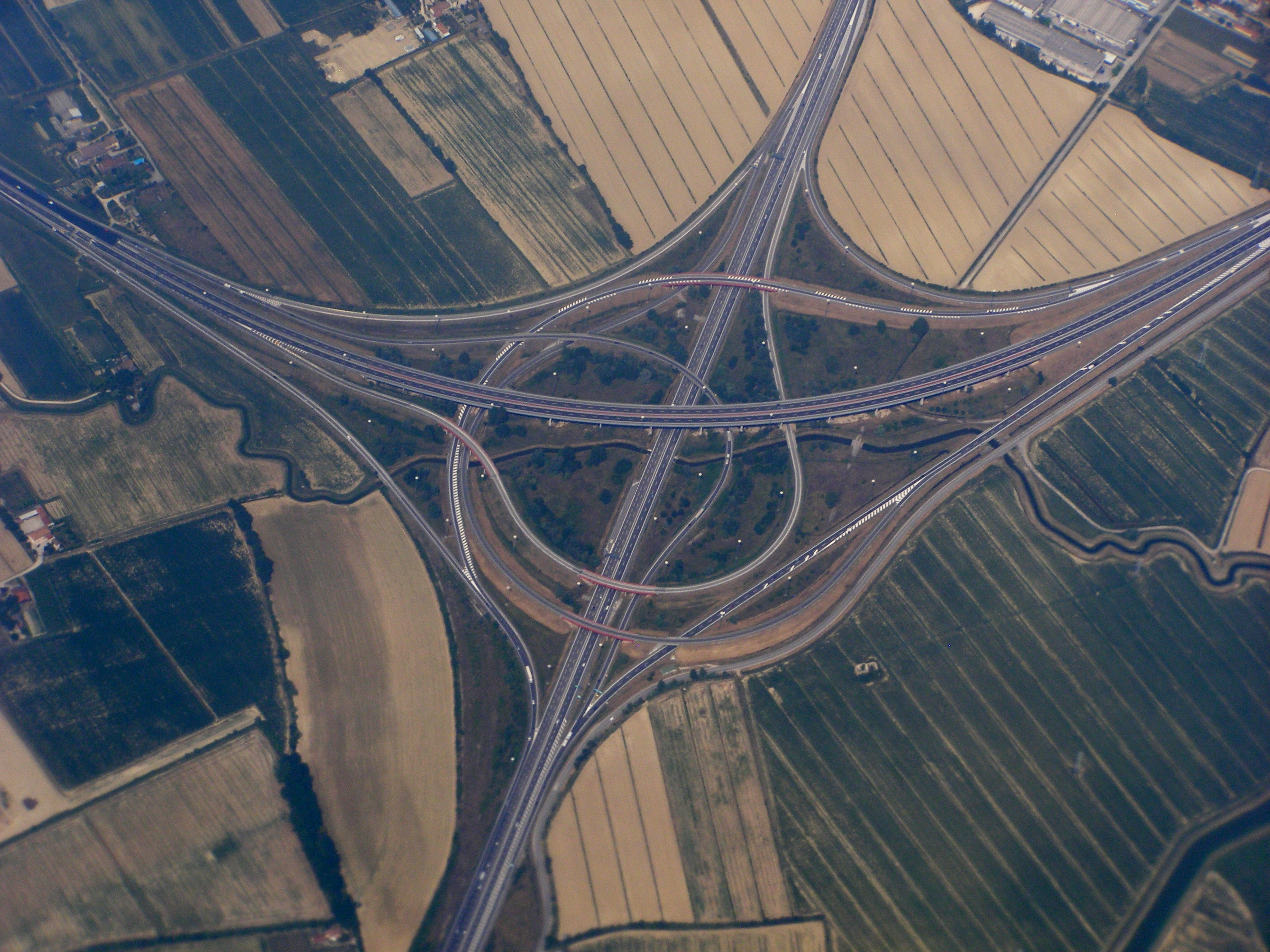 A57 and A27 highway interchange